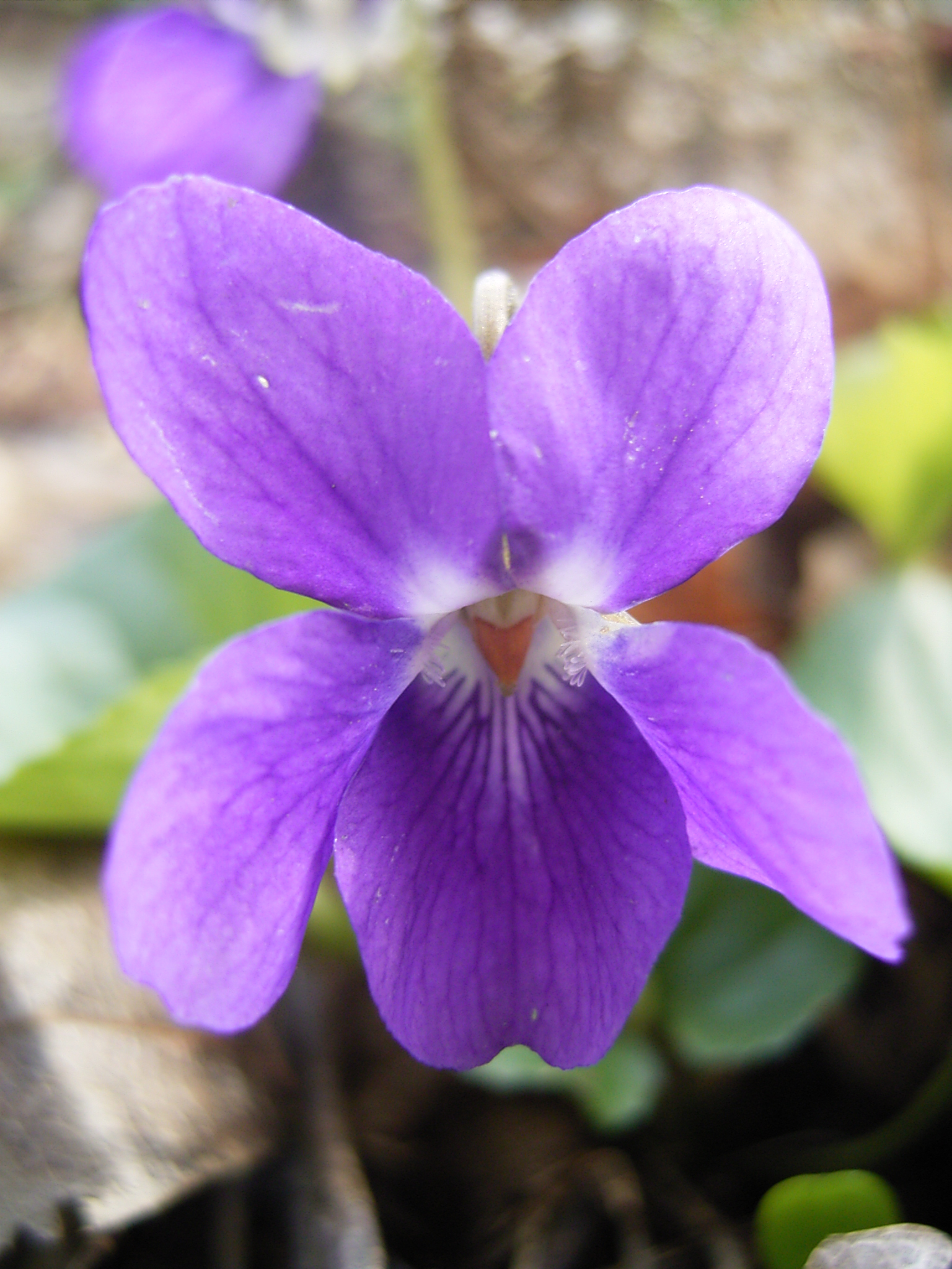 This picture shows a closeup of the flower of Viola odorata, taken in Rijswijk, Netherlands.